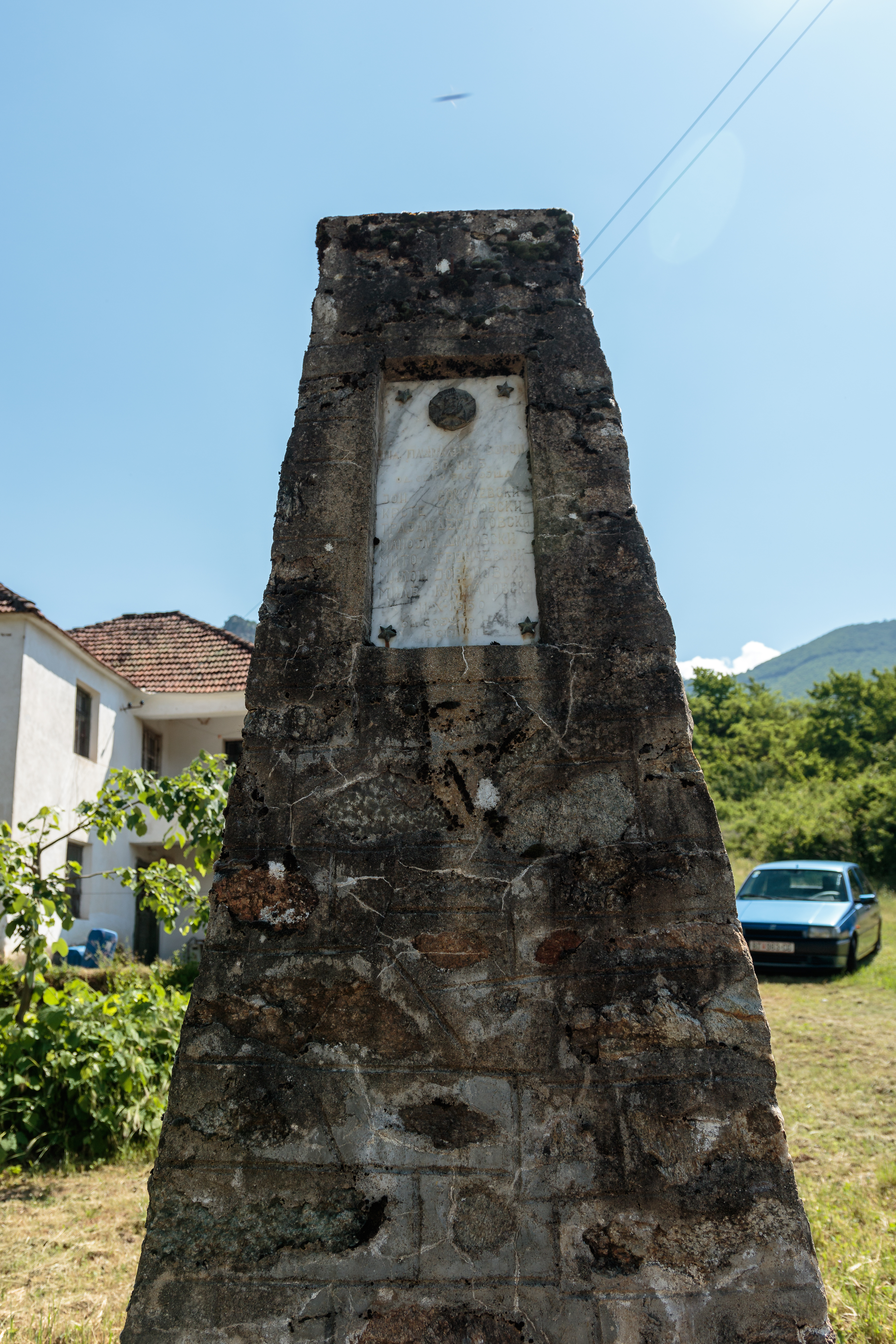 Monument in the village Rastojca